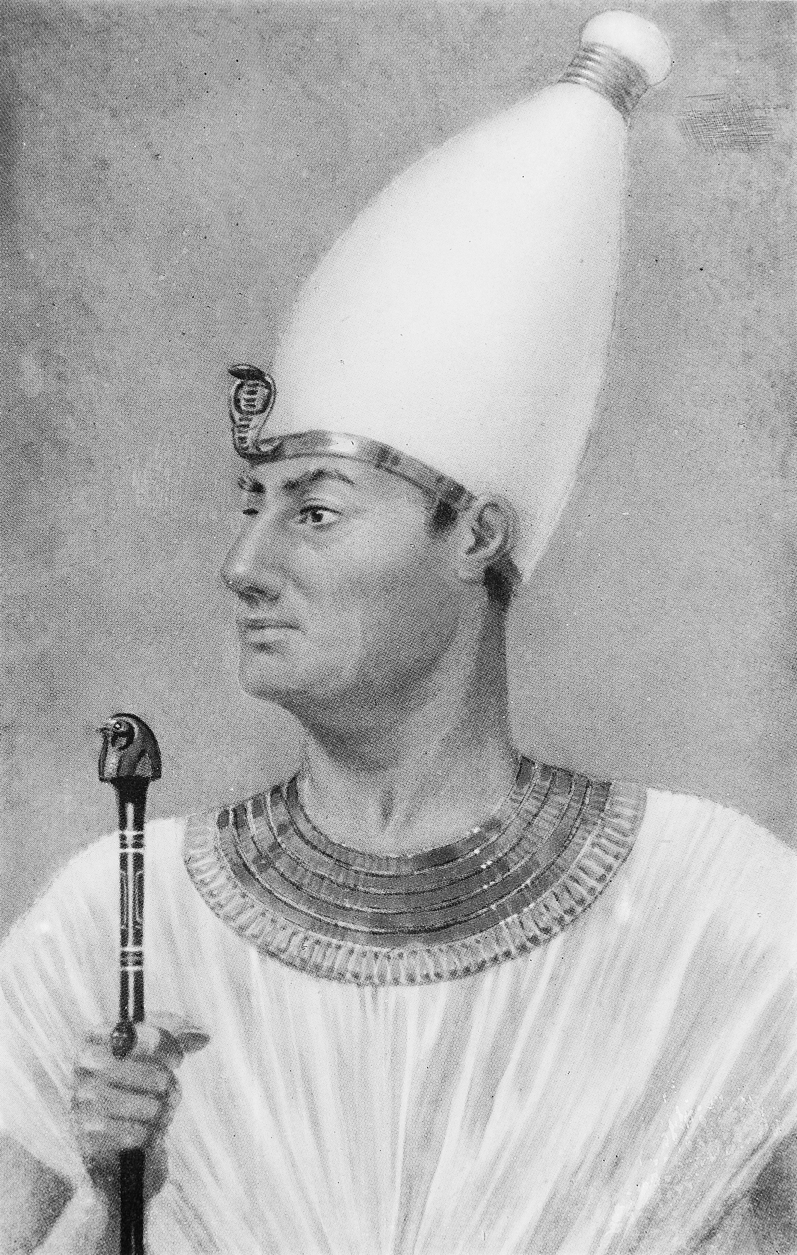 Figure of Ancient Egyptian, Thothmes III Wellcome Images Keywords: Thothmes III